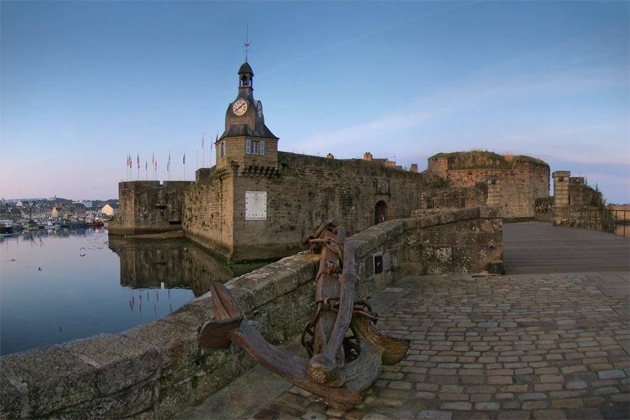 The medieval Ville Close, Concarneau, Finistère, Bretagne, France.